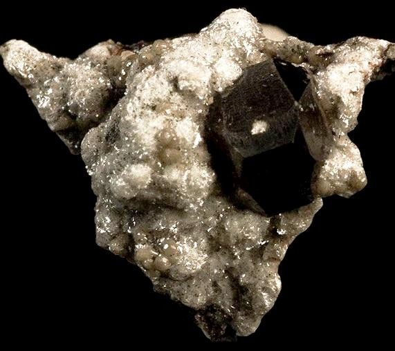 Kegelite, Siderite Locality: Tsumeb Mine (Tsumcorp Mine), Tsumeb, Otjikoto (Oshikoto) Region, Namibia (Locality at ) Size: 1.7 x 1.4 x 1.3 cm. Although this may not look like much to most collectors, others will recognize it as an extraordinarily rich specimen of the extremely rare species Kegelite, a lead species found in macrocrystals only at Tsumeb (the type locality). This piece has a rich covering of crystals with characteristic pearlescent sheen to them. The little clusters reach 1mm, which is exceptional in size and richness for the species. A sharp, lustrous, gemmy siderite crystal is in attendance for contrast. Only few valid kegelite specimens ever were recovered, and most available pieces are trims from those original pieces (this being no exception, a trim that previous owner Eric Asselborn said he obtained in trade in the 1980s, and from one of the specimens in BMNH holdings). Analysis by Bart Cannon confirmed the ID. Another trim from this same specimen was also in the Asselborn collection, and is now in the Smithsonian Institution. Ex. Eric Asselborn Collection.